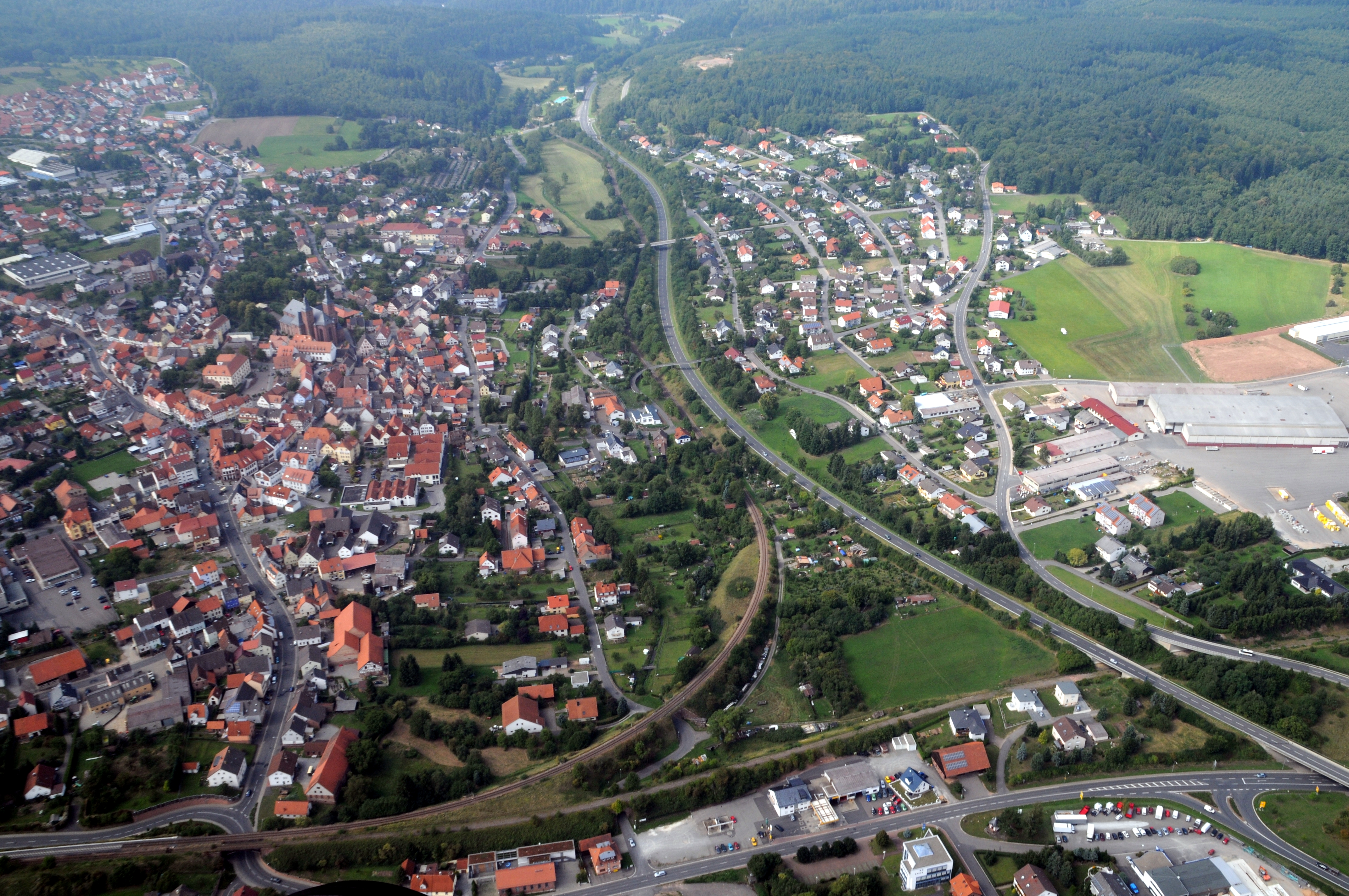 Walldürn, Baden-Württemberg, Germany, aerial photograph